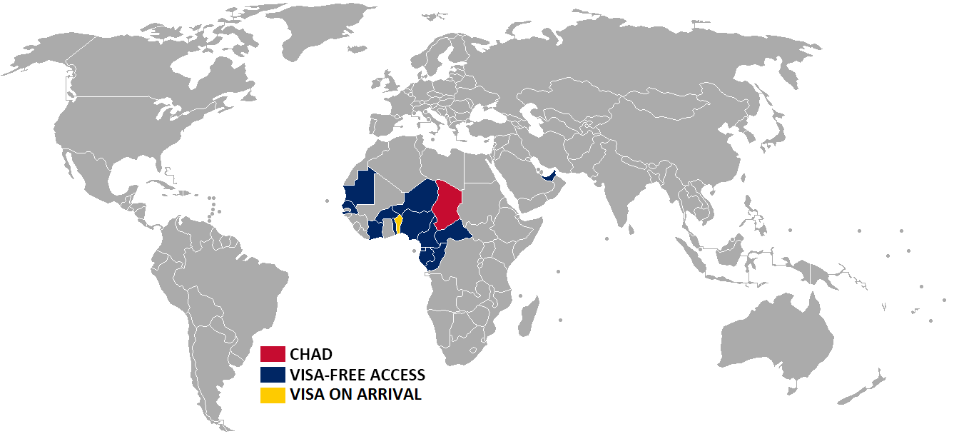 Visa policy of Chad Chad Visa exempt Visa on arrival